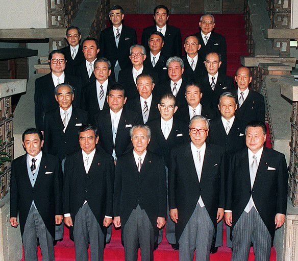 Tomiichi Murayama, Prime Minister, reformed the Cabinet on August 8, 1995. Murayama posed for the photo with Tomoharu Tazawa, Yōhei Kōno, Masayoshi Takemura, Yoshinobu Shimamura, Chūryō Morii, Hōsei Norota, Ryūtarō Hashimoto, Takeo Hiranuma, Issei Inoue, Shinji Aoki, Yoshirō Mori, Takashi Fukaya, Kōken Nosaka, Takami Etō, Masaaki Takagi, Seishirō Etō, Isamu Miyazaki, Yasuoki Urano, Tadamori Ōshima, Seiichi Ikehata, Ministers of State, Takao Ōde, Director-General of the Cabinet Legislation Bureau, Hiroyuki Sonoda and Teijirō Furukawa, Deputy Chief Cabinet Secretaries, at the Prime Minister's Official Residence in Chiyoda Ward, Tōkyō Metropolis.(For terms of use, see リンク、著作権等について | 首相官邸ホームページ.)